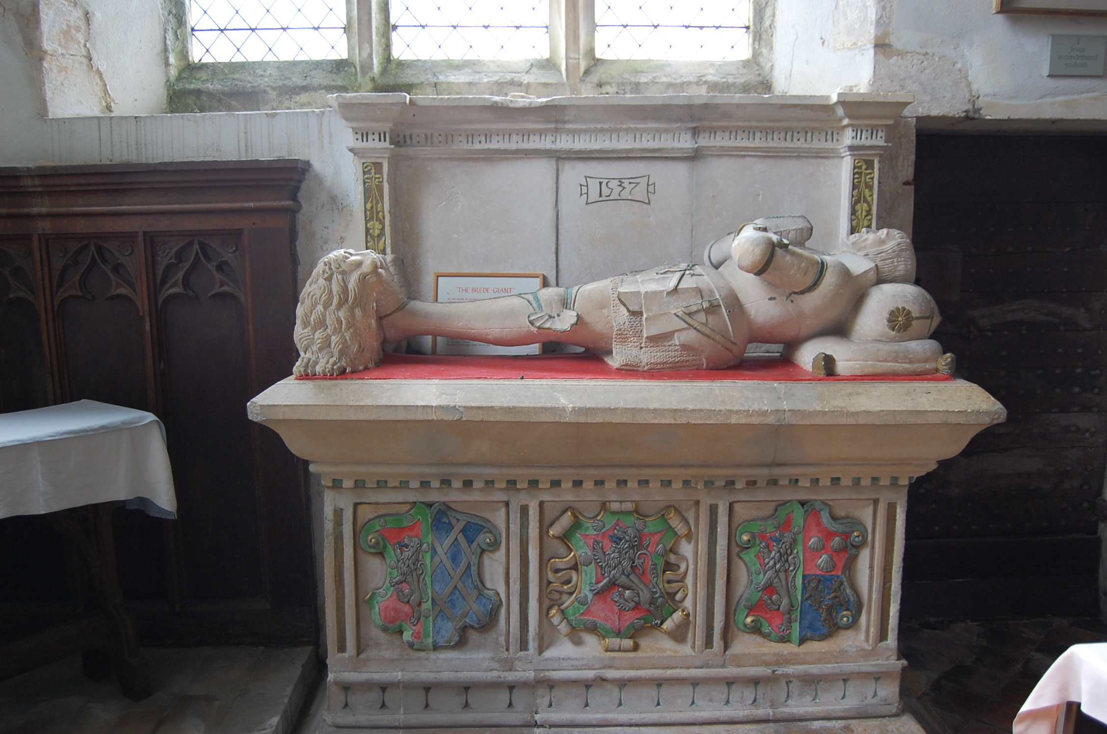 The tomb of Goddard Oxenbridge, otherwise known as the Brede Giant, in St George's Church, Brede, East Sussex, England